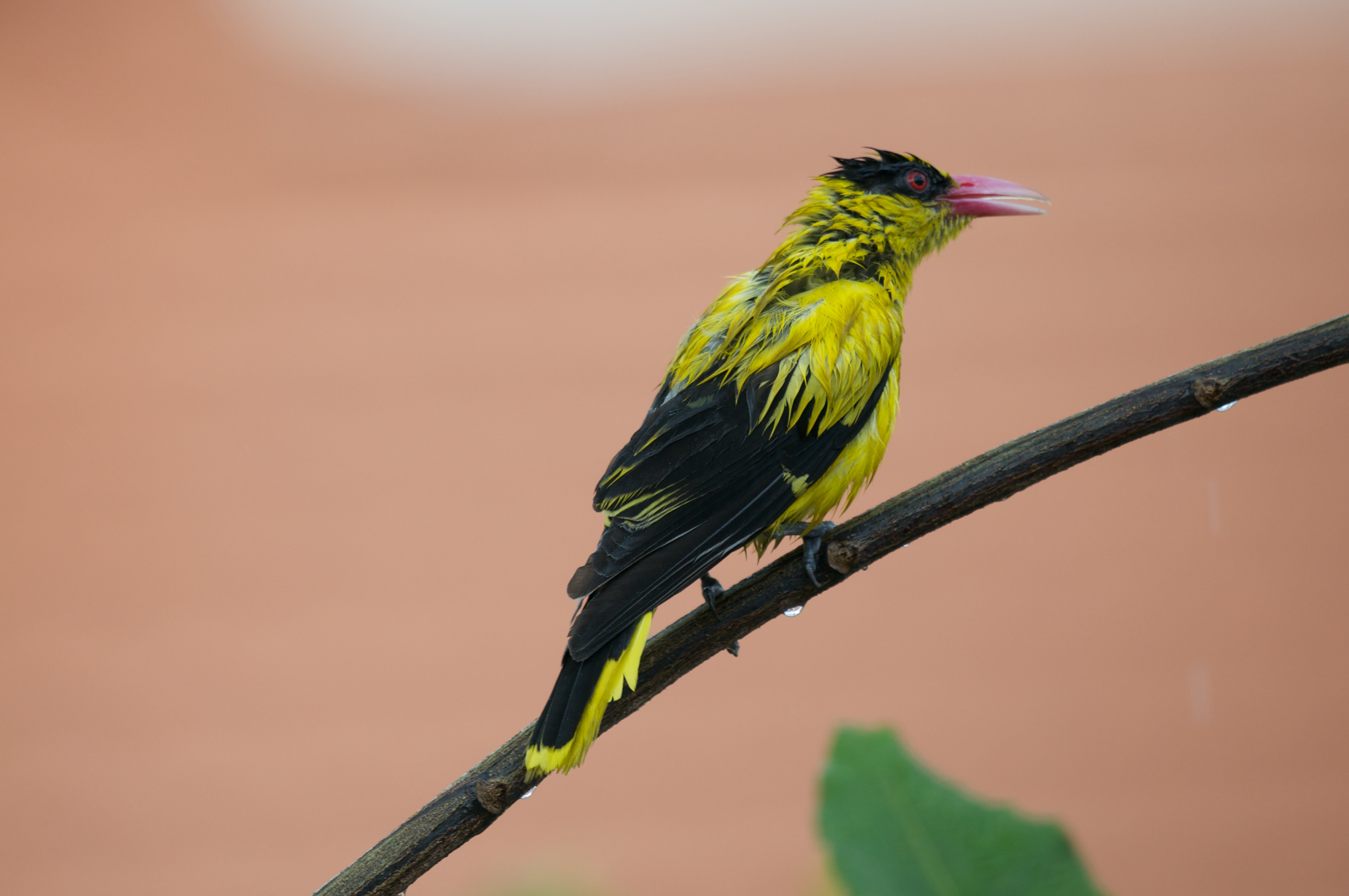 A very wet Black Naped Oriole